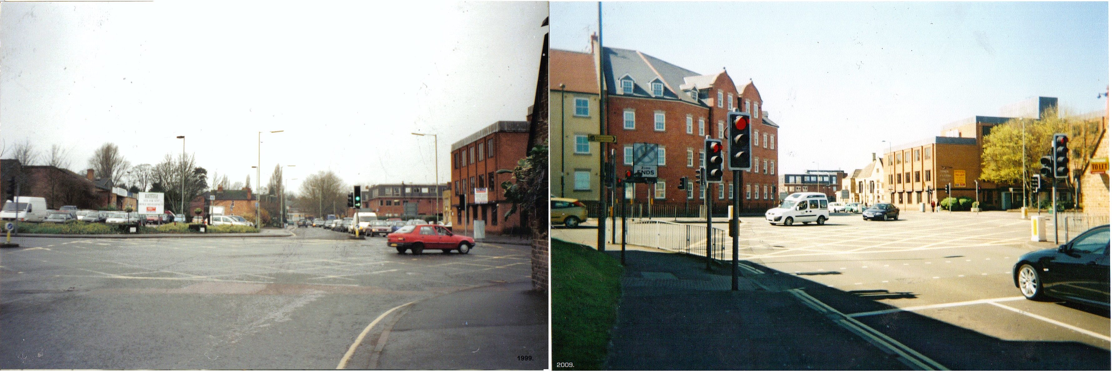 I took this picture of Banbury town my self. I here by release it in to the public domain. The "Shires" crossroads in 1999 to the left, prior to redevelopment in 2003, and the same place in 2009 to the right.